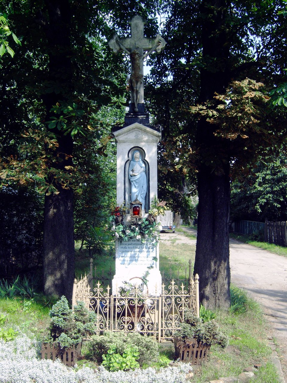 Monument in Drajok (district of Katowice City) in Poland.